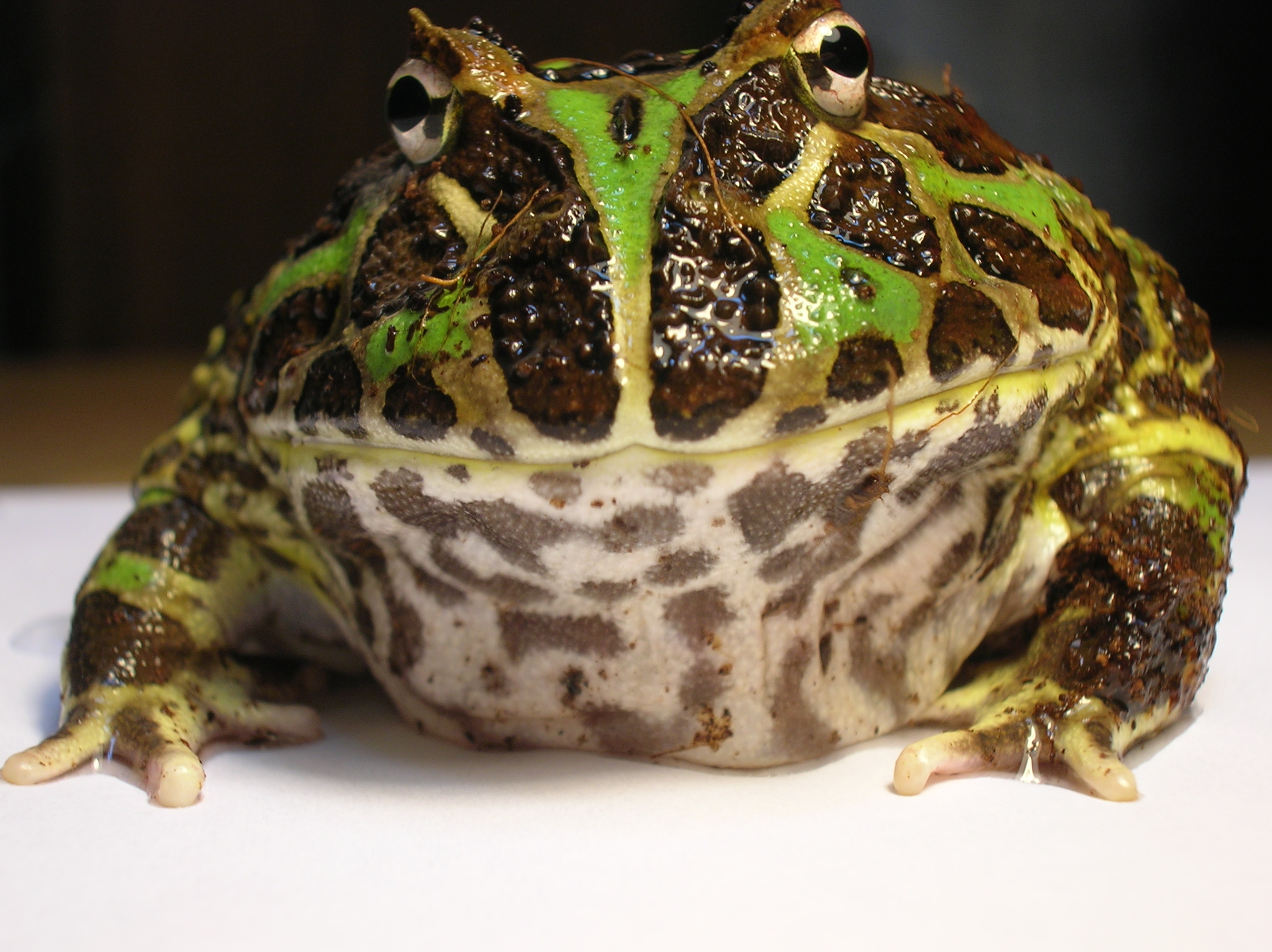 This is my pet Argentine Horned Frog (Ceratophrys ornata) I took this photo my self in my Dorm room.